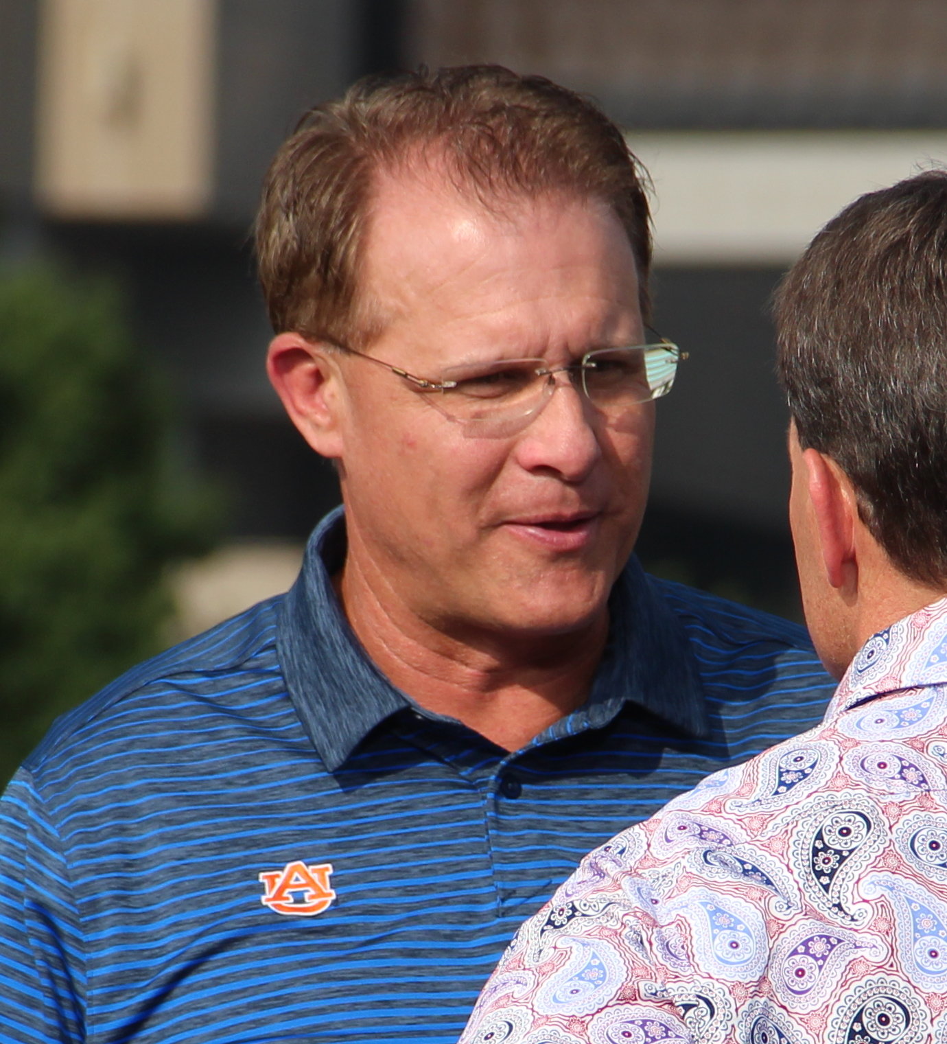 Gus Malzahn talking to Gene Chizik